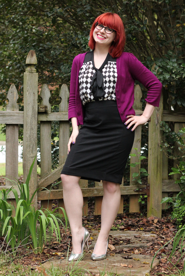 Purple Cardigan, Black Pencil Skirt, Checkered Top, and Silver Heels Model